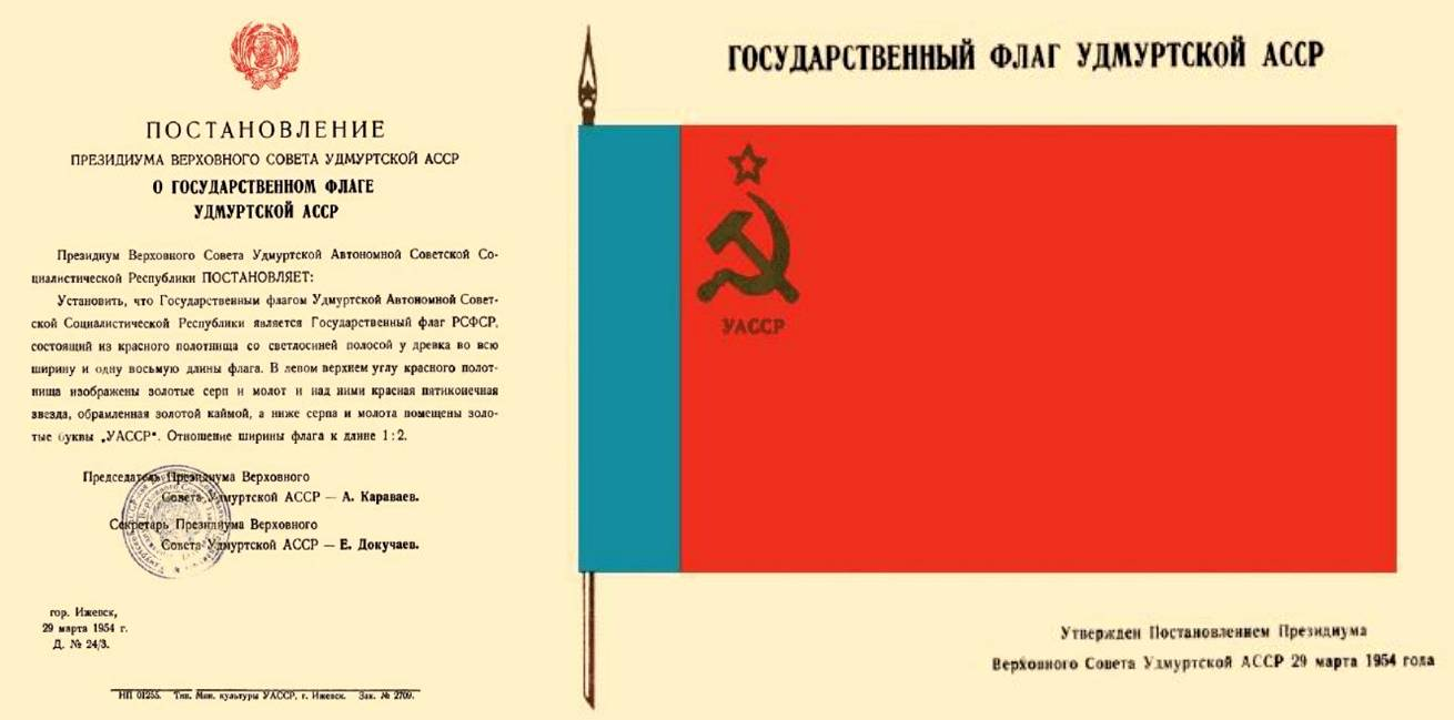 The decree on the flag of the Udmurt ASSR, in effect from 29 March 1954.